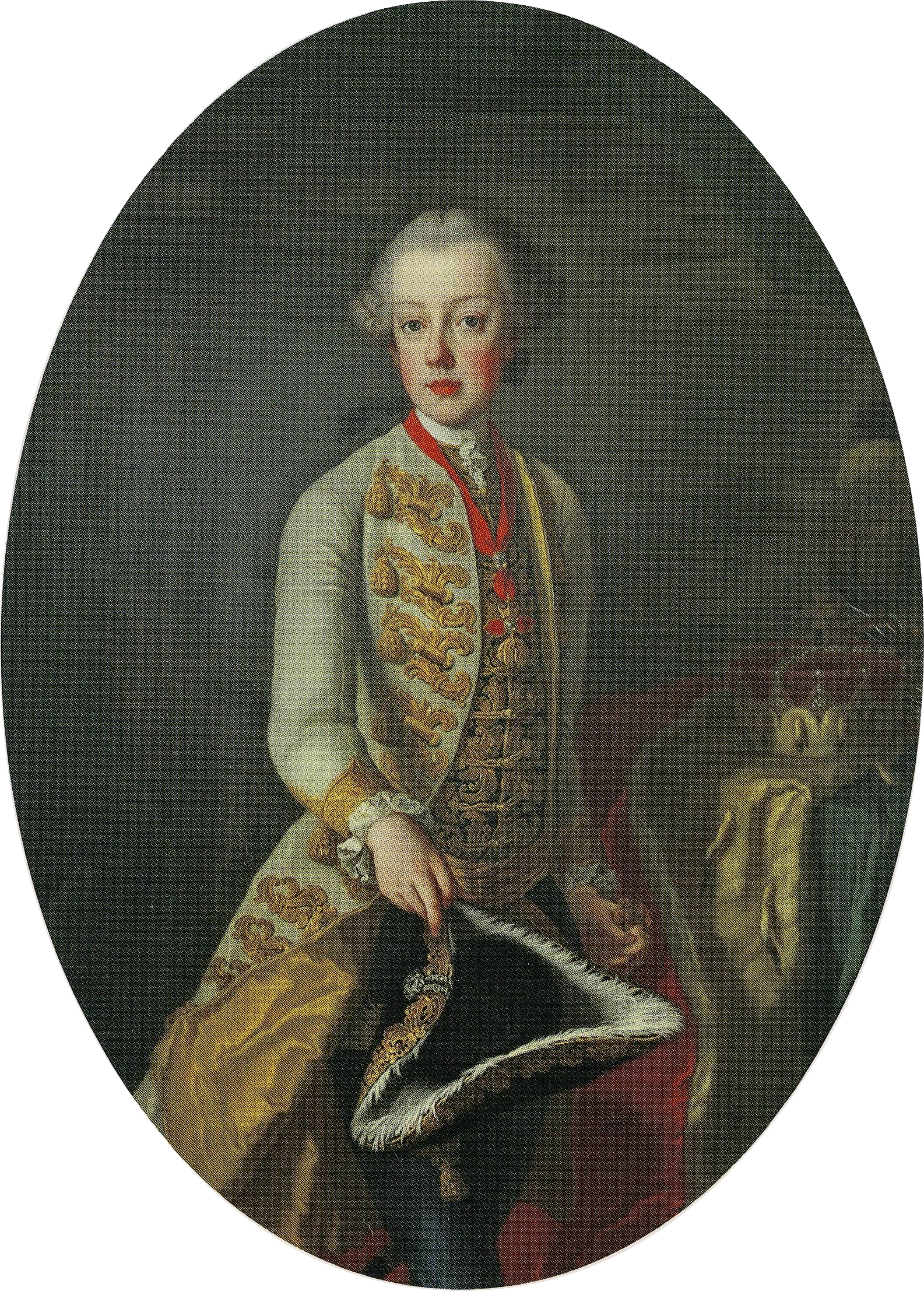 Archduke Karl Joseph (1745–1761), second son of Franz I Stephan and Maria Theresa of Austria.